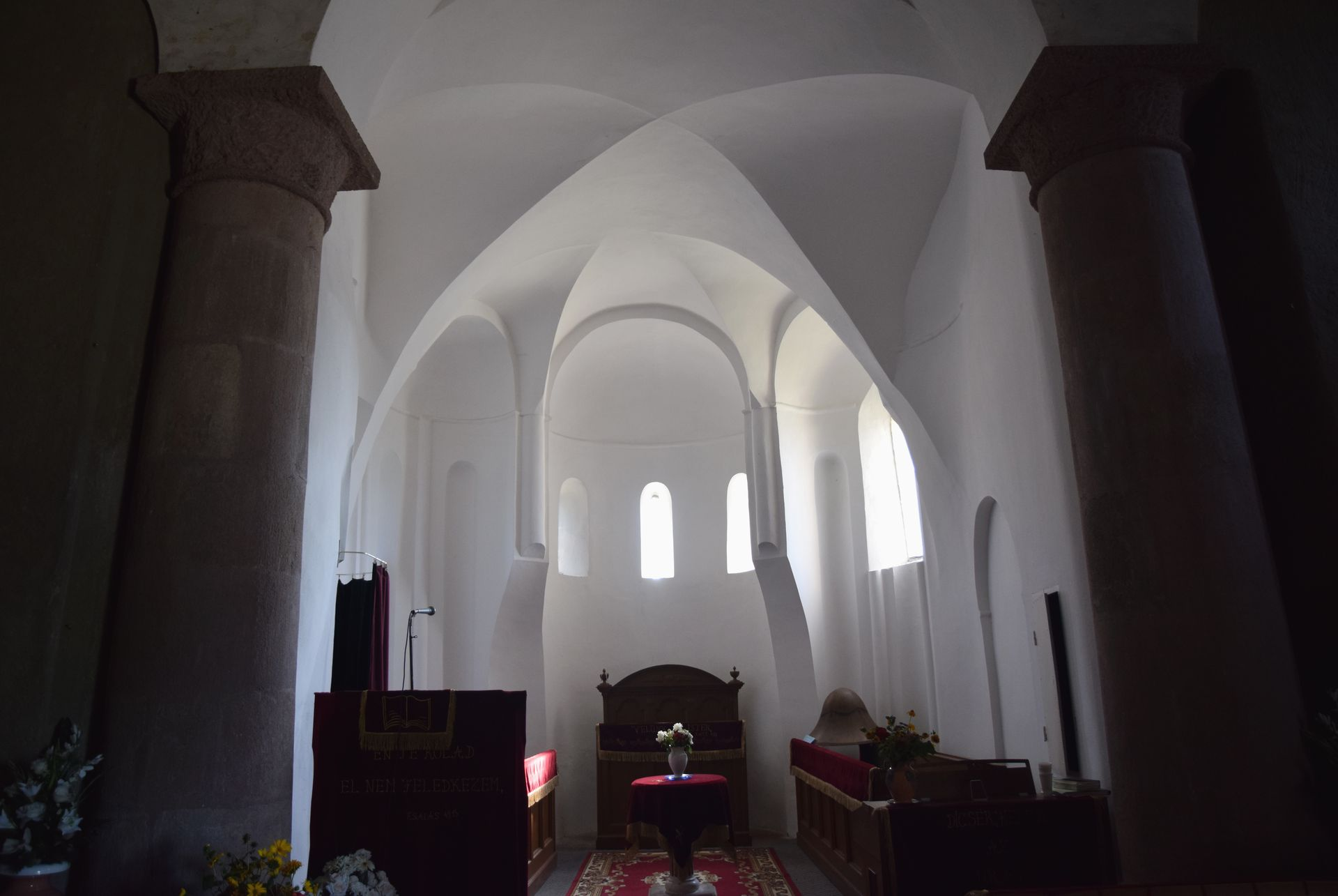 Karcsa, church apse